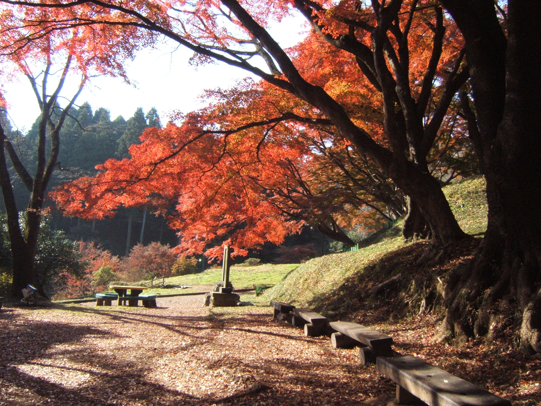 Ruins of Sakuyama castle. Ōtawara, Tochigi, Japan.